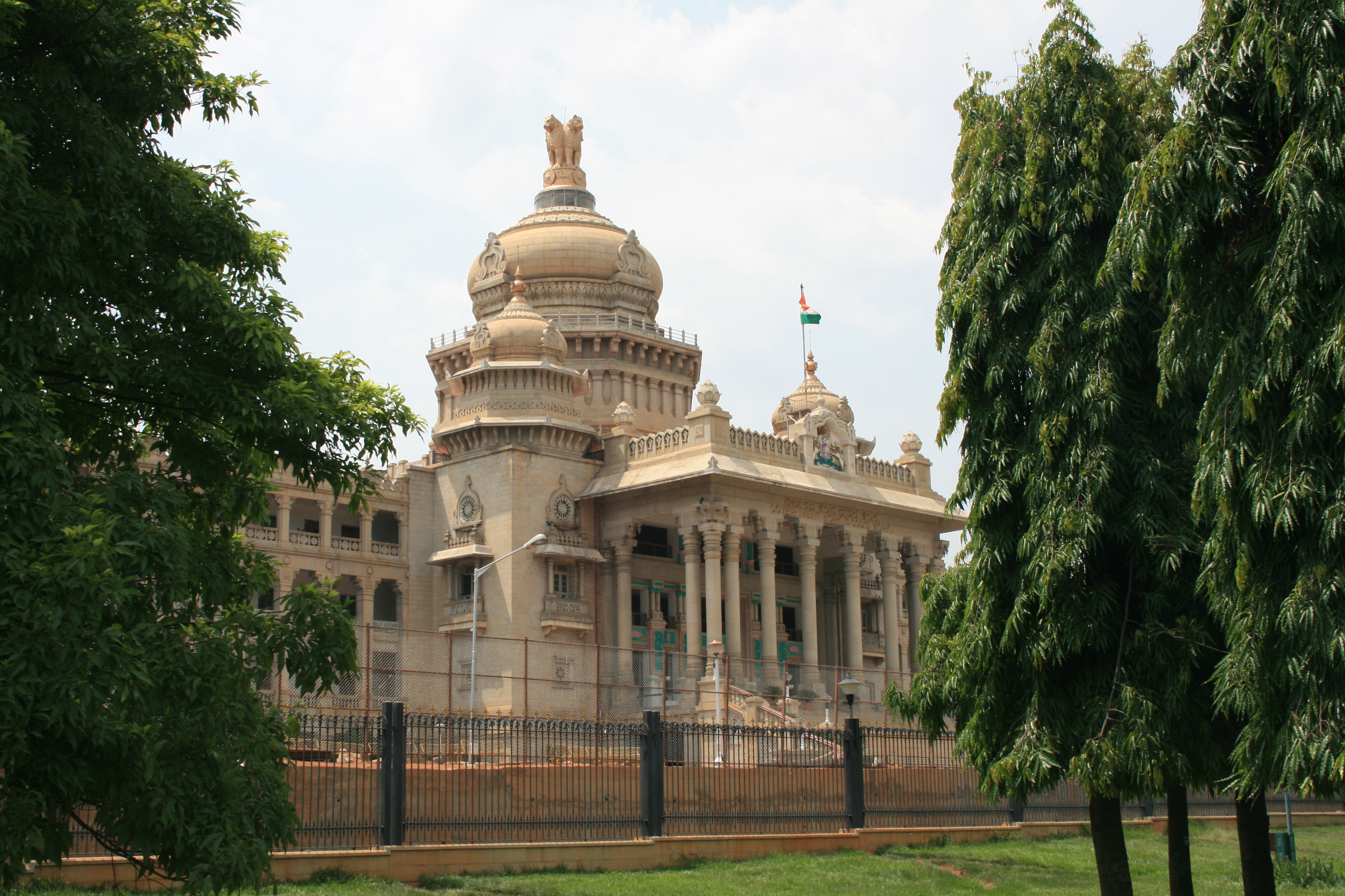 Vidhana Soudha (Government of Karnataka in Bangalore)